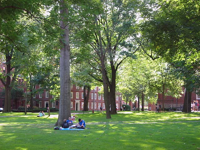 Harvard Yard. Photo taken by Dudesleeper on September 21, 2003.